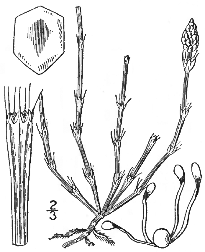 Fig. 98. Equisetum variegatum from the second edition of An Illustrated Flora of the Northern United States, Canada and the British Possessions (New York, 1913)